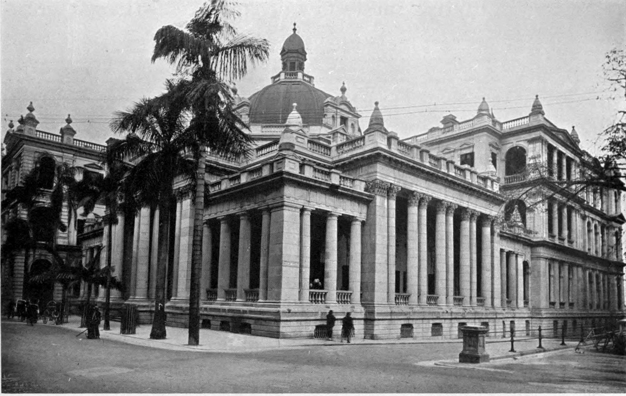 Hong Kong and Shanghai Bank